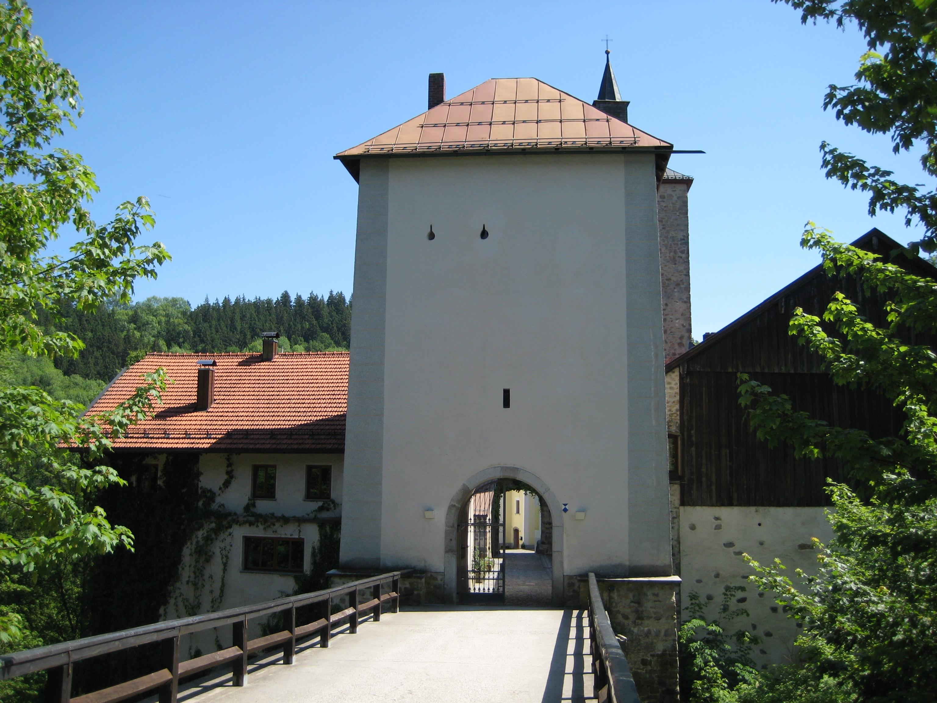 Castle Fürsteneck